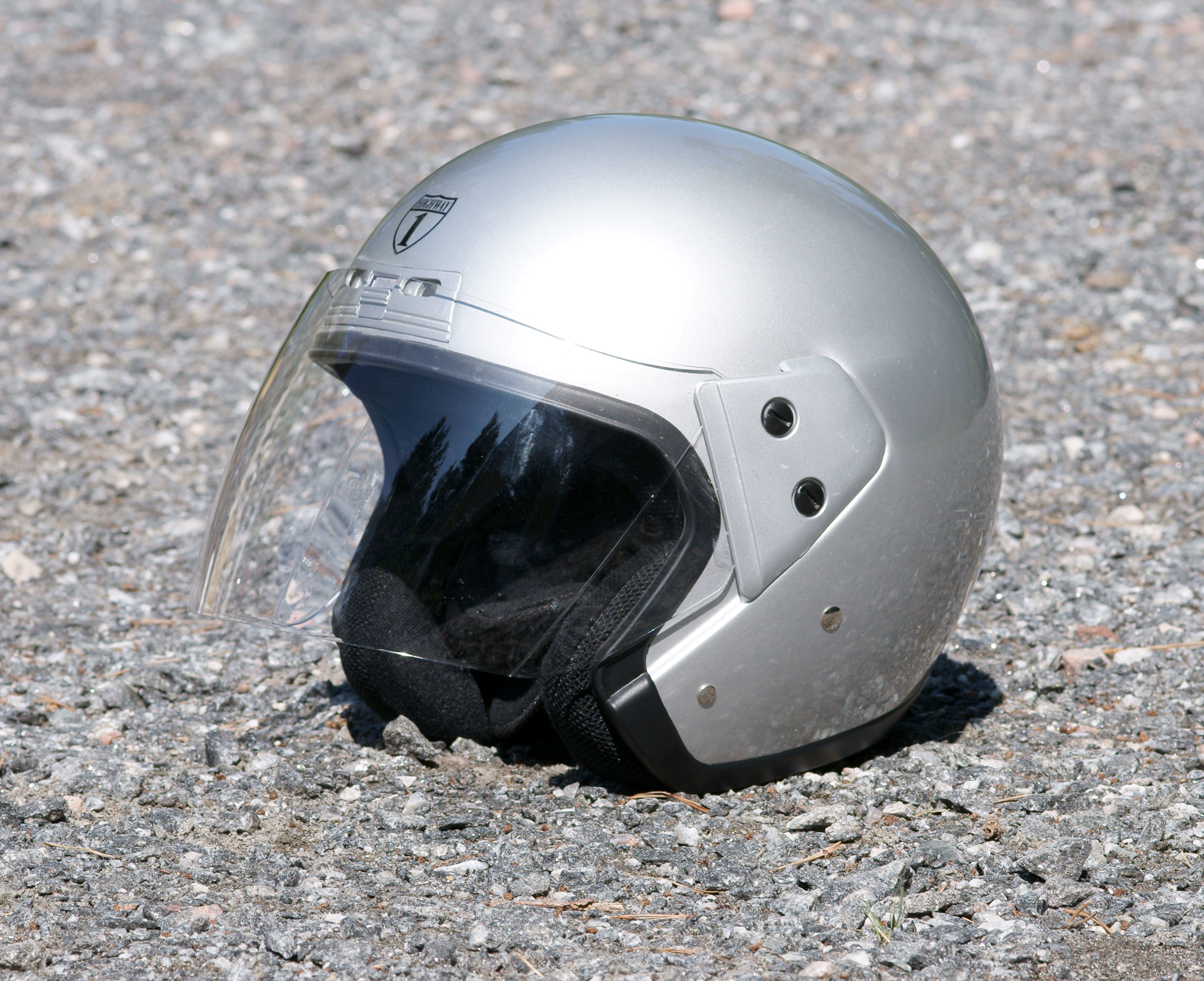 Open-face helmet.